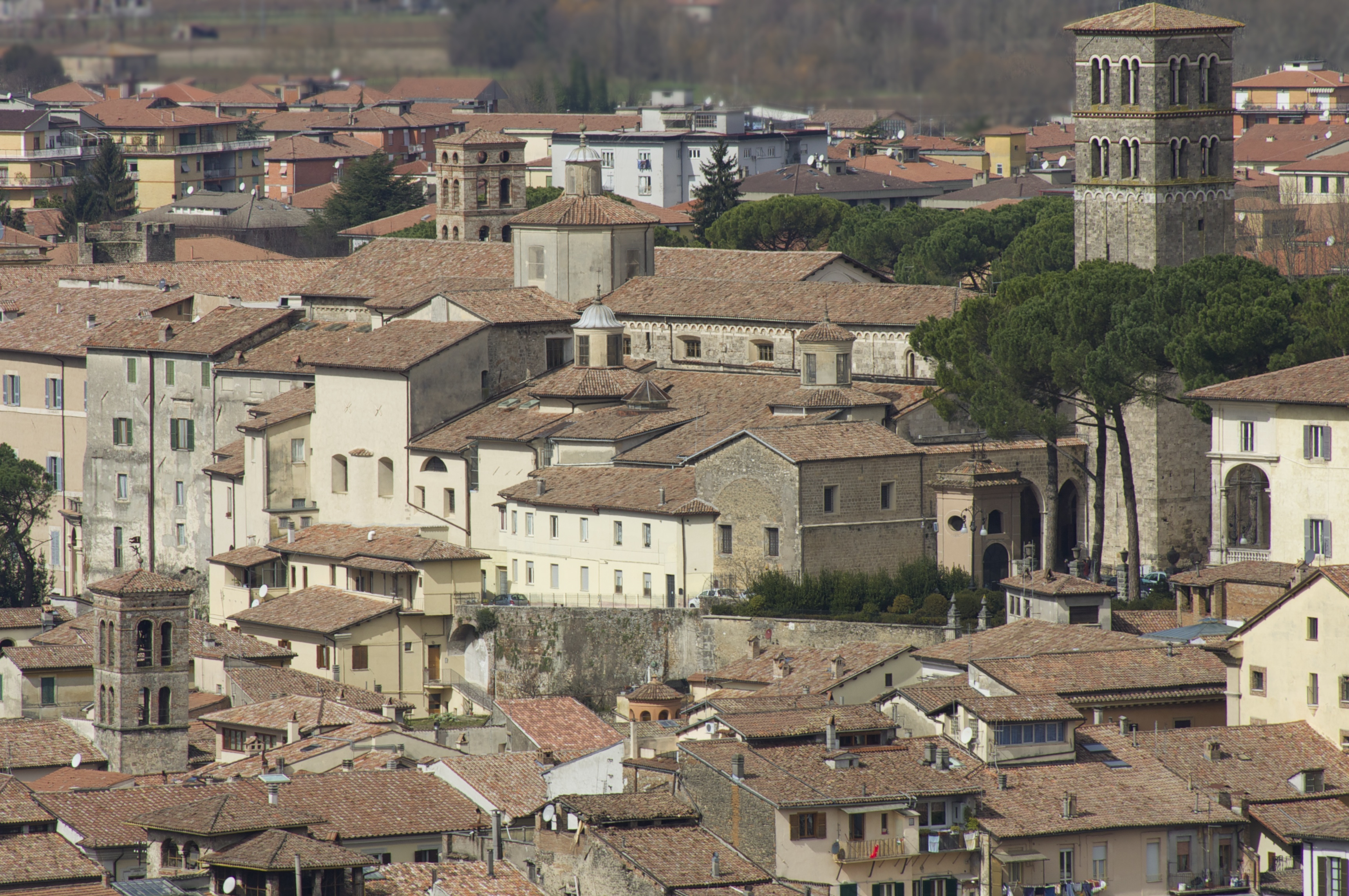 City centre by day - Rieti (Lazio, Italy)